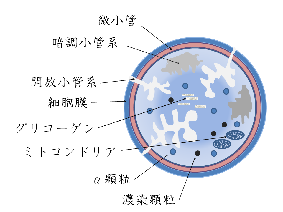 sectioned drawing diagram of a human platelet